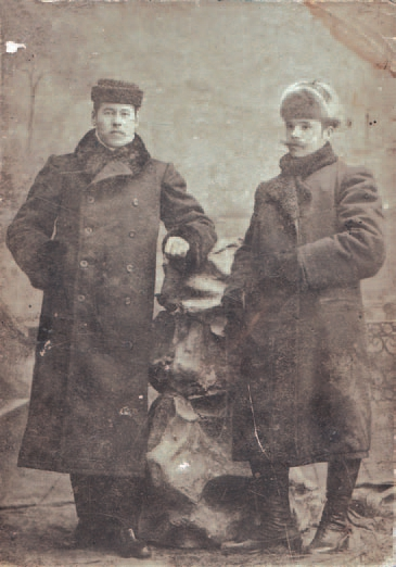 Fyodor Yakubovsky (on the left) with friend.